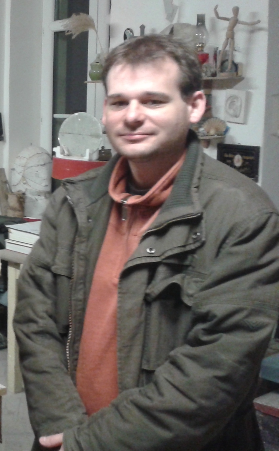 Ondřej Šindelář (* February 1, 1981 in Pilsen) - sculptor, restorer and pedagogue.